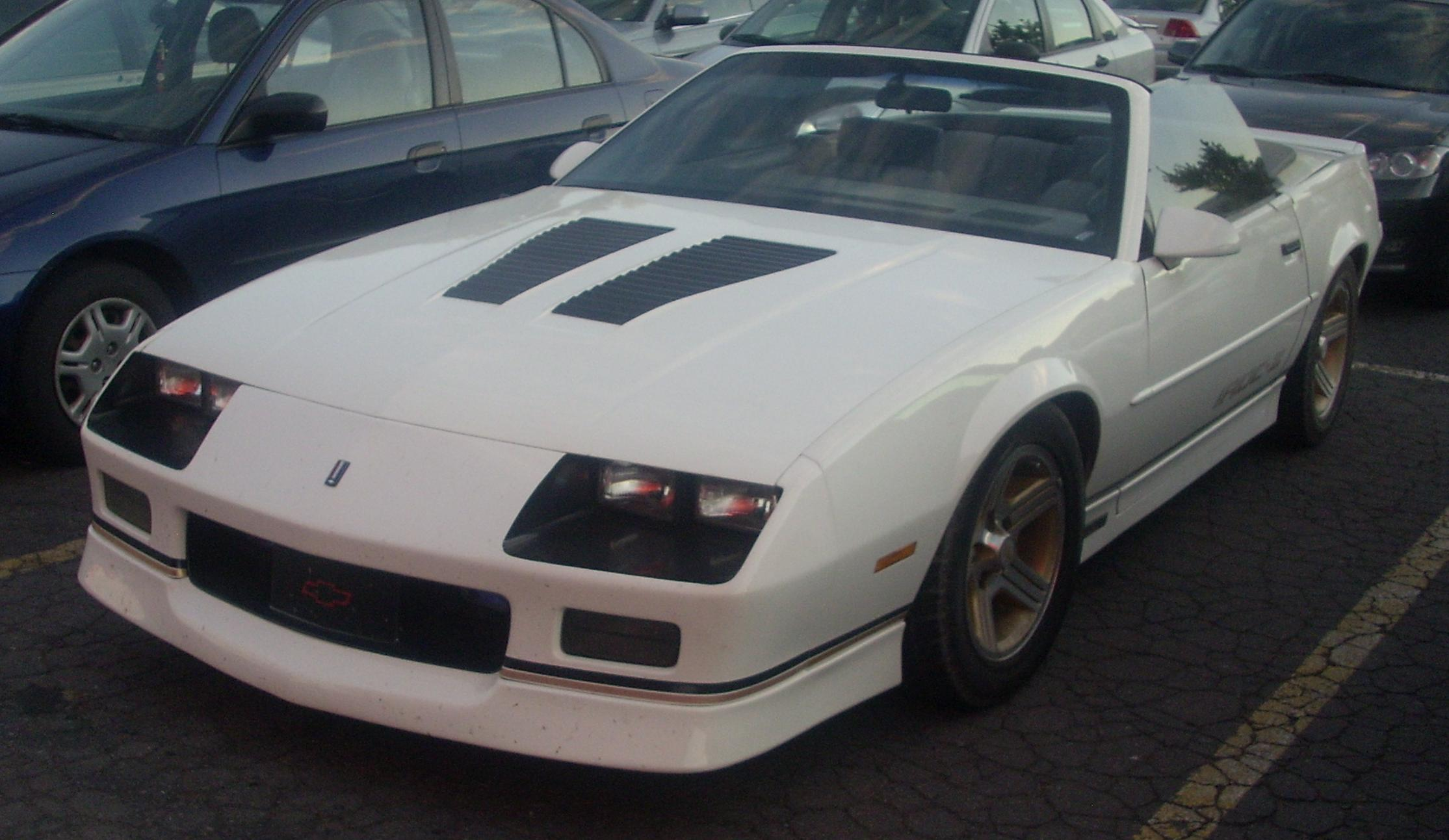 Chevrolet Camaro photographed in Montreal, Quebec, Canada at Gibeau Orange Julep.